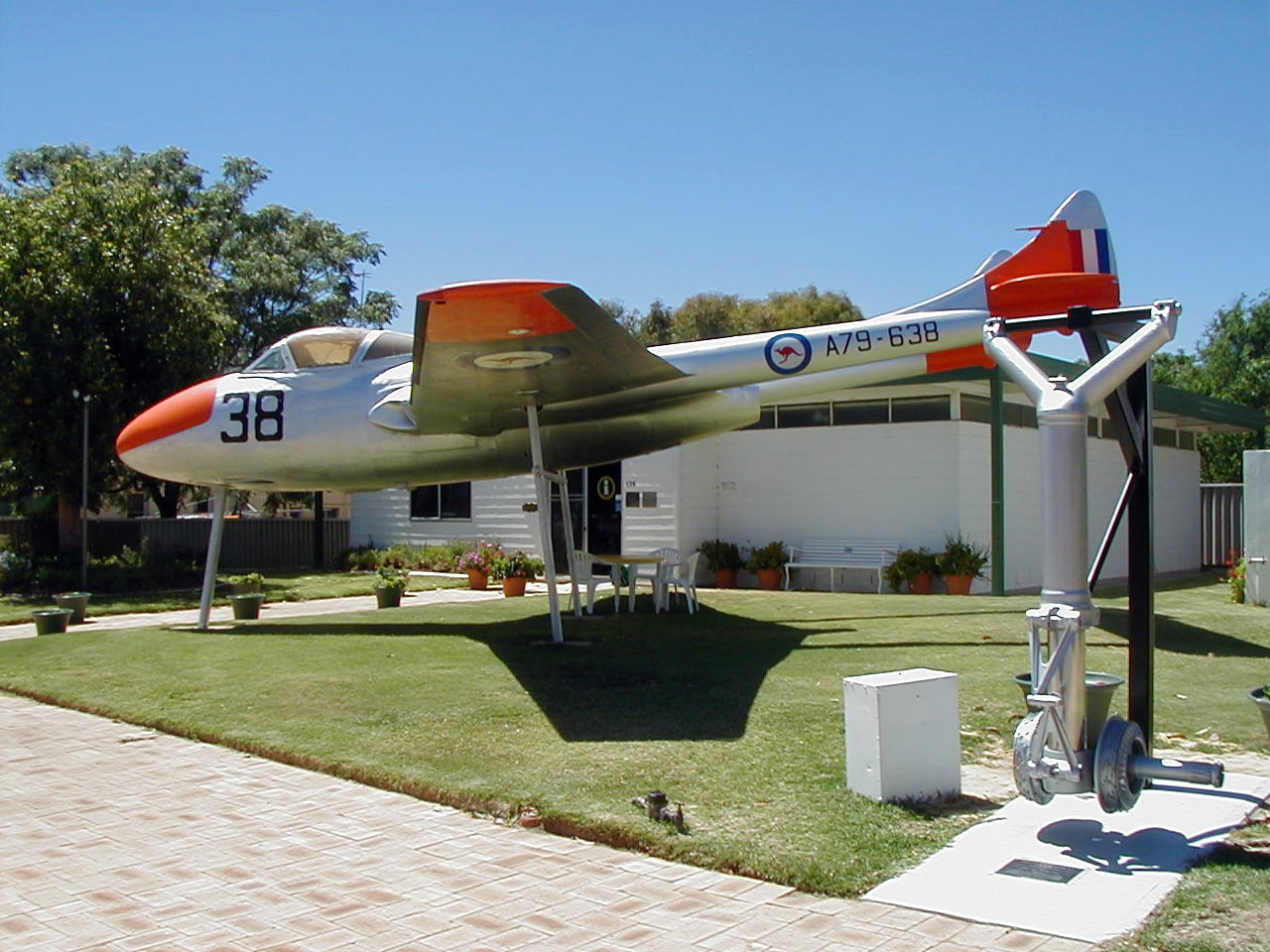 RAAF De Havilland Vampire - Beverley, Western Australia.